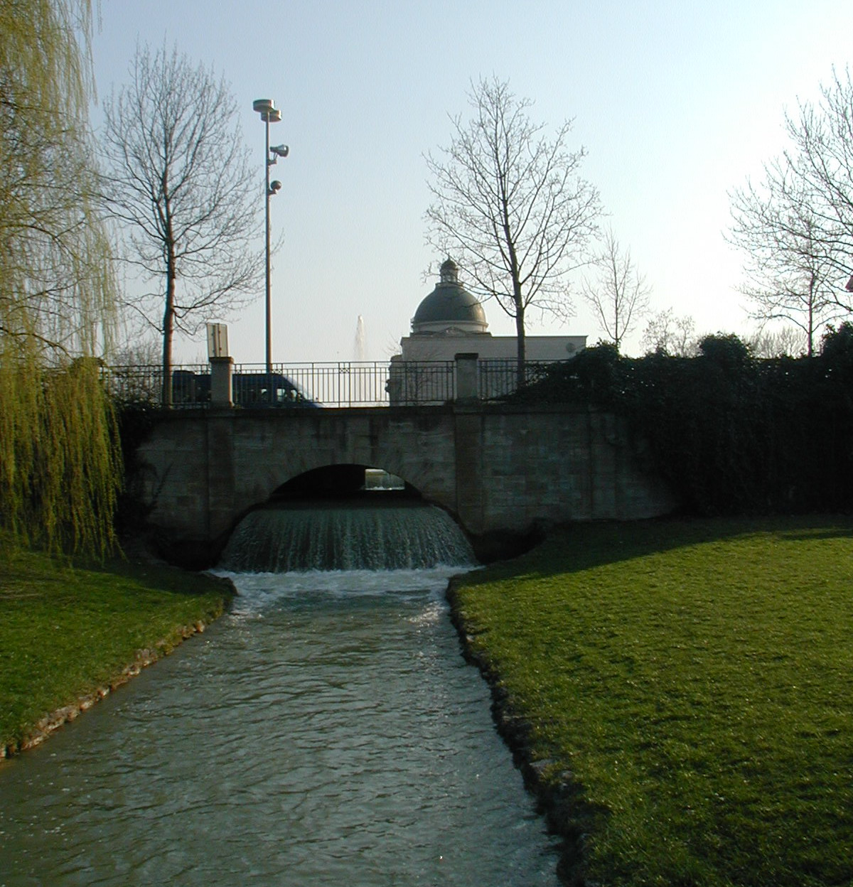 Creek in Englischer Garten, Munich, Germany